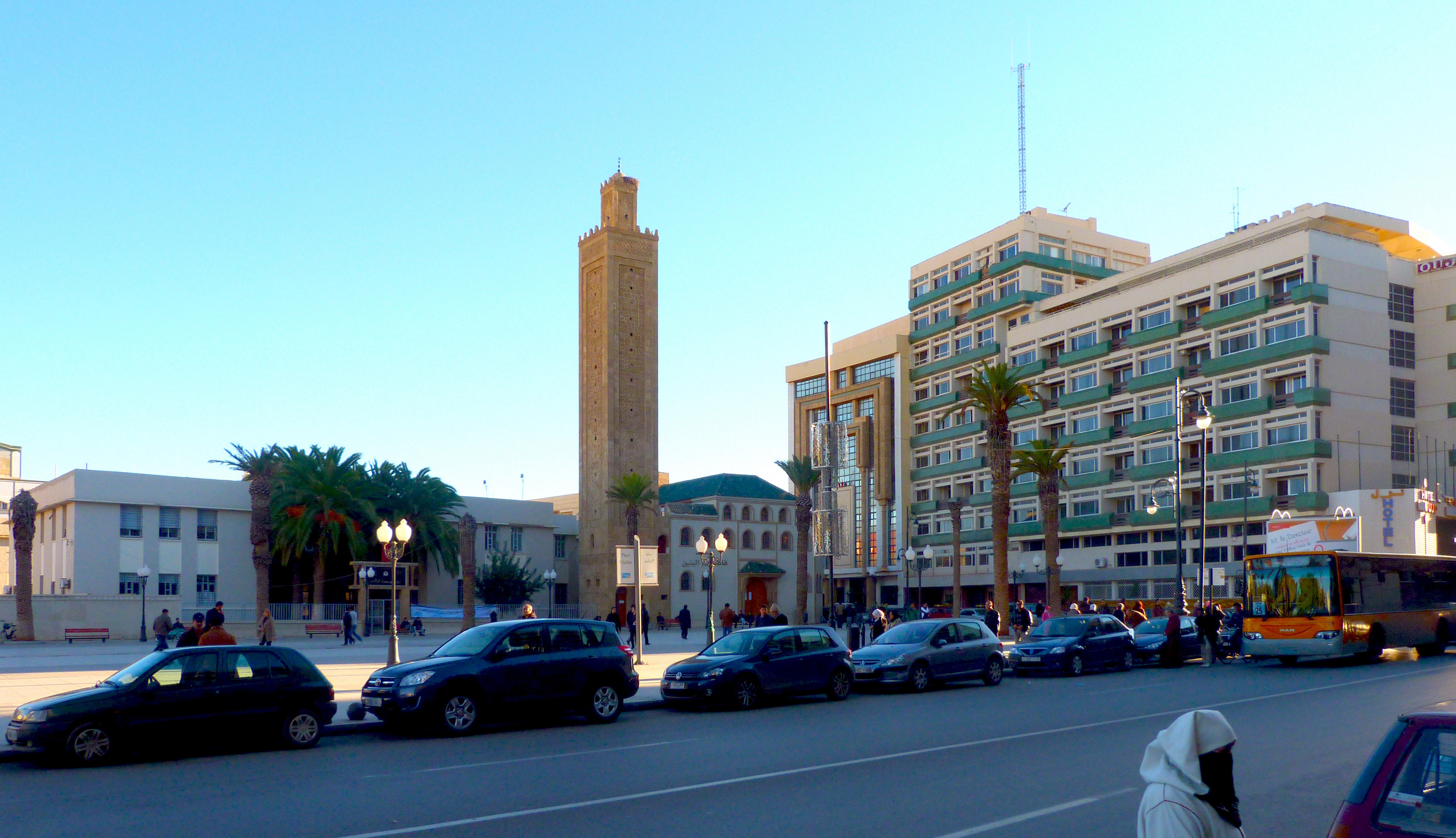 The Oujda hotel and the mosque Mohammed V in the city center of Oujda in Morocco, region of Oriental.